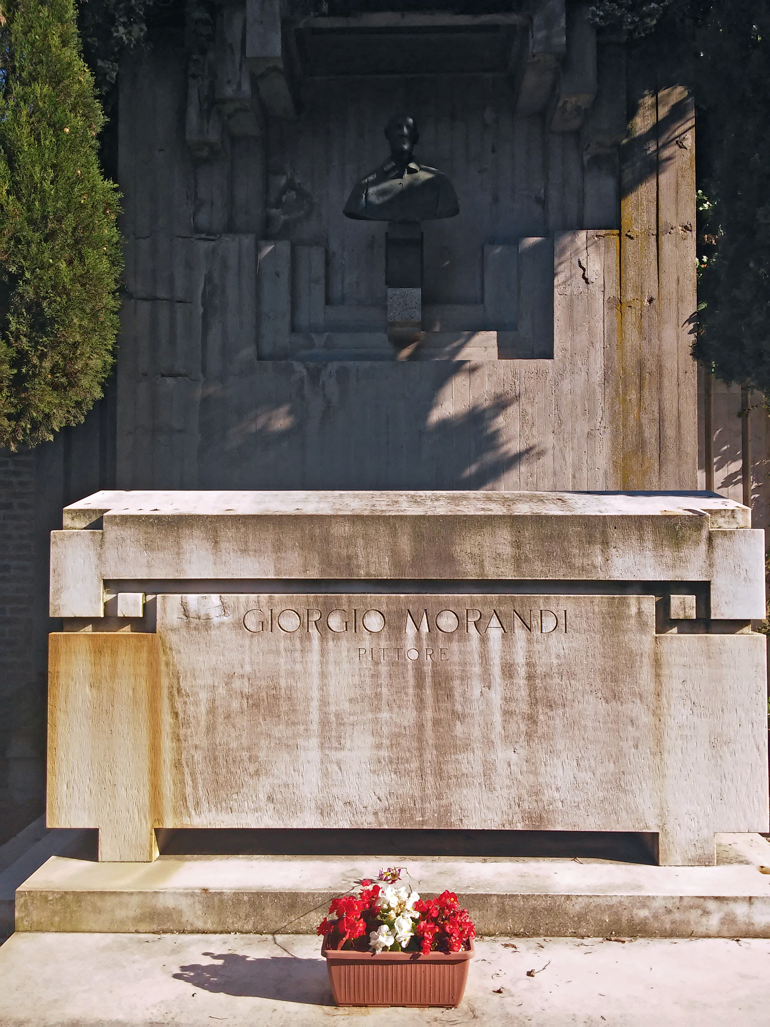 Grave of Italian painter Giorgio Morandi (1890 – 1964) in Bologna monumental cemetery ("Certosa")